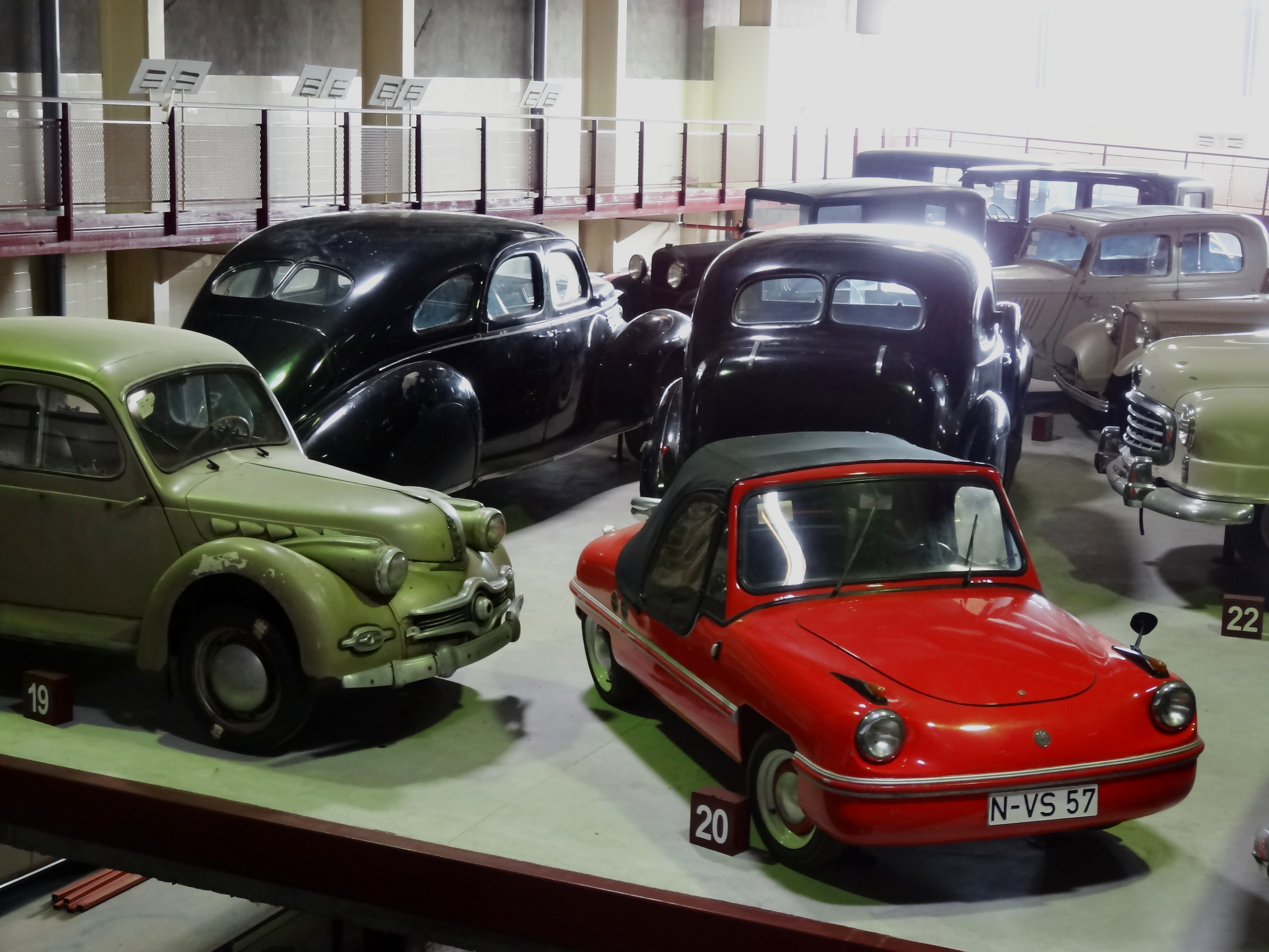 Mahy Mobiles Leuze Belgien 076